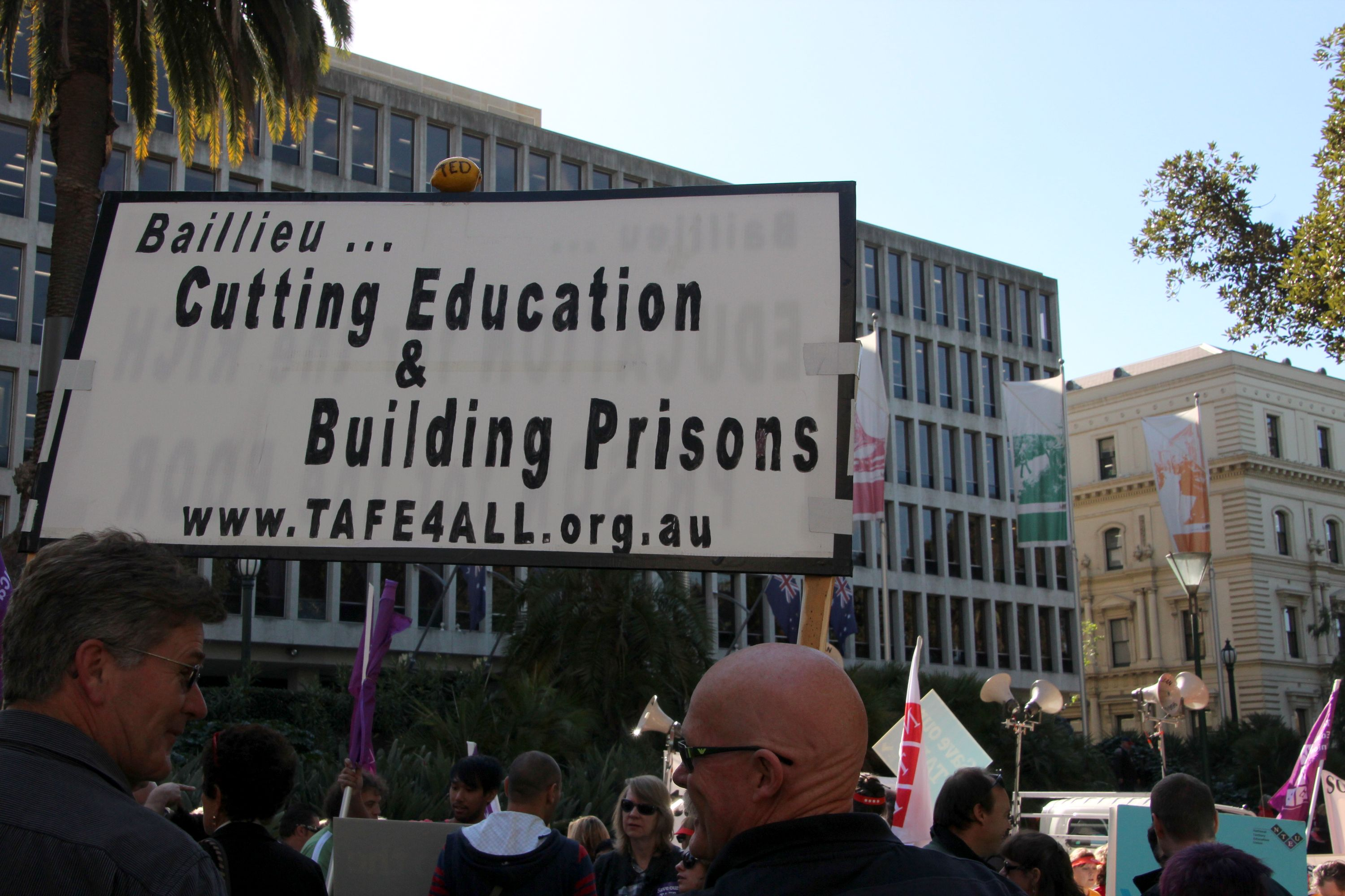 TAFE teachers and students rallied outside Premier Baillieu's offices on Thursday May 10 in Melbourne in response to the drastic cuts to funding the TAFE education system in Victoria in the State Budget. An NTEU official estimated about 2500 people attended. Education union officials from the Australian Education Union (AEU) and National Tertiary Education Union (NTEU) spoke on the extent and likely impact of the funding cuts on TAFE jobs, course fees, and the destruction of the TAFE Vocational Education programs. TAFE Teachers and students also addressed the crowd.